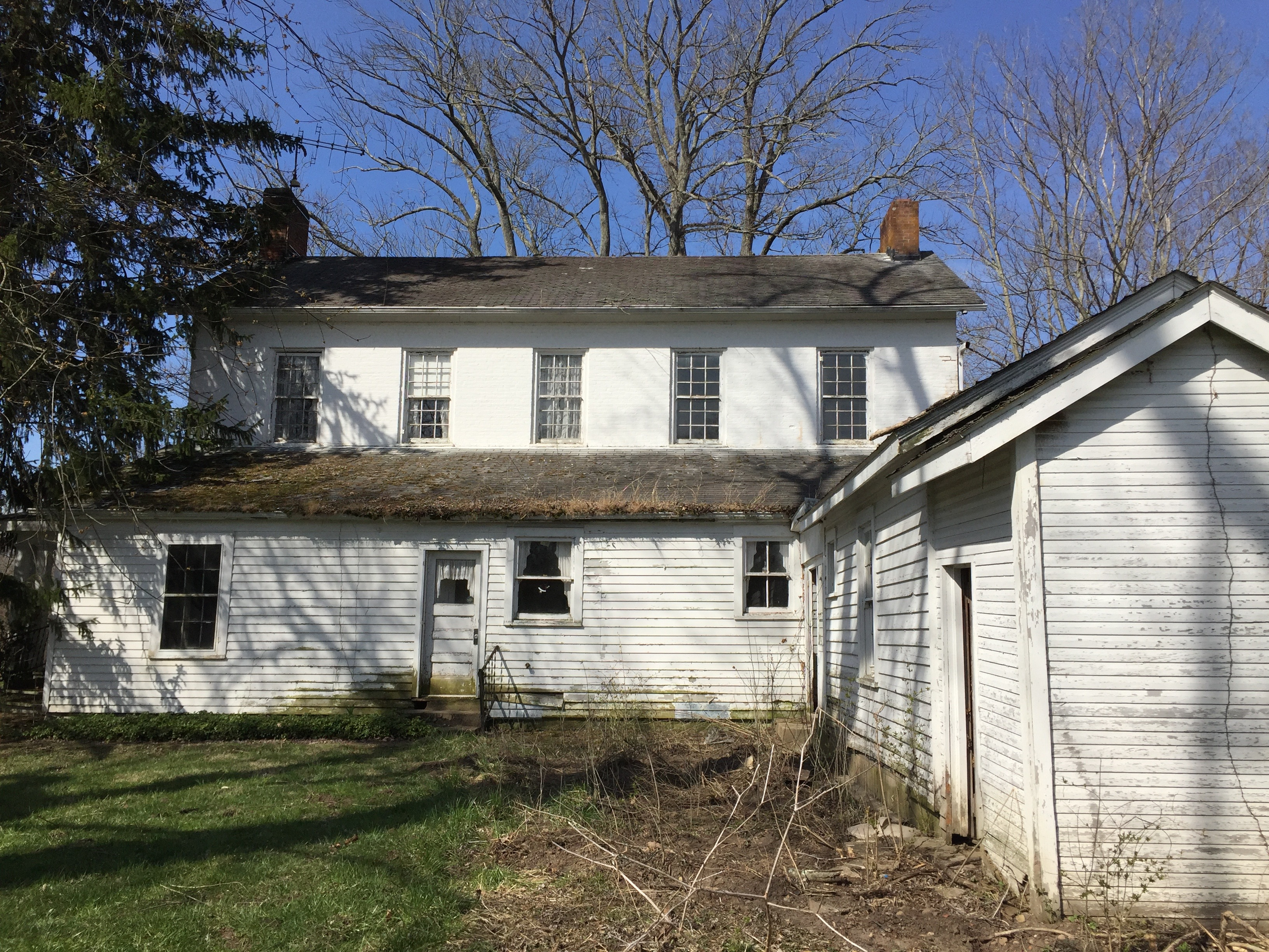 Subsequent additions have been made to the rear over several years.